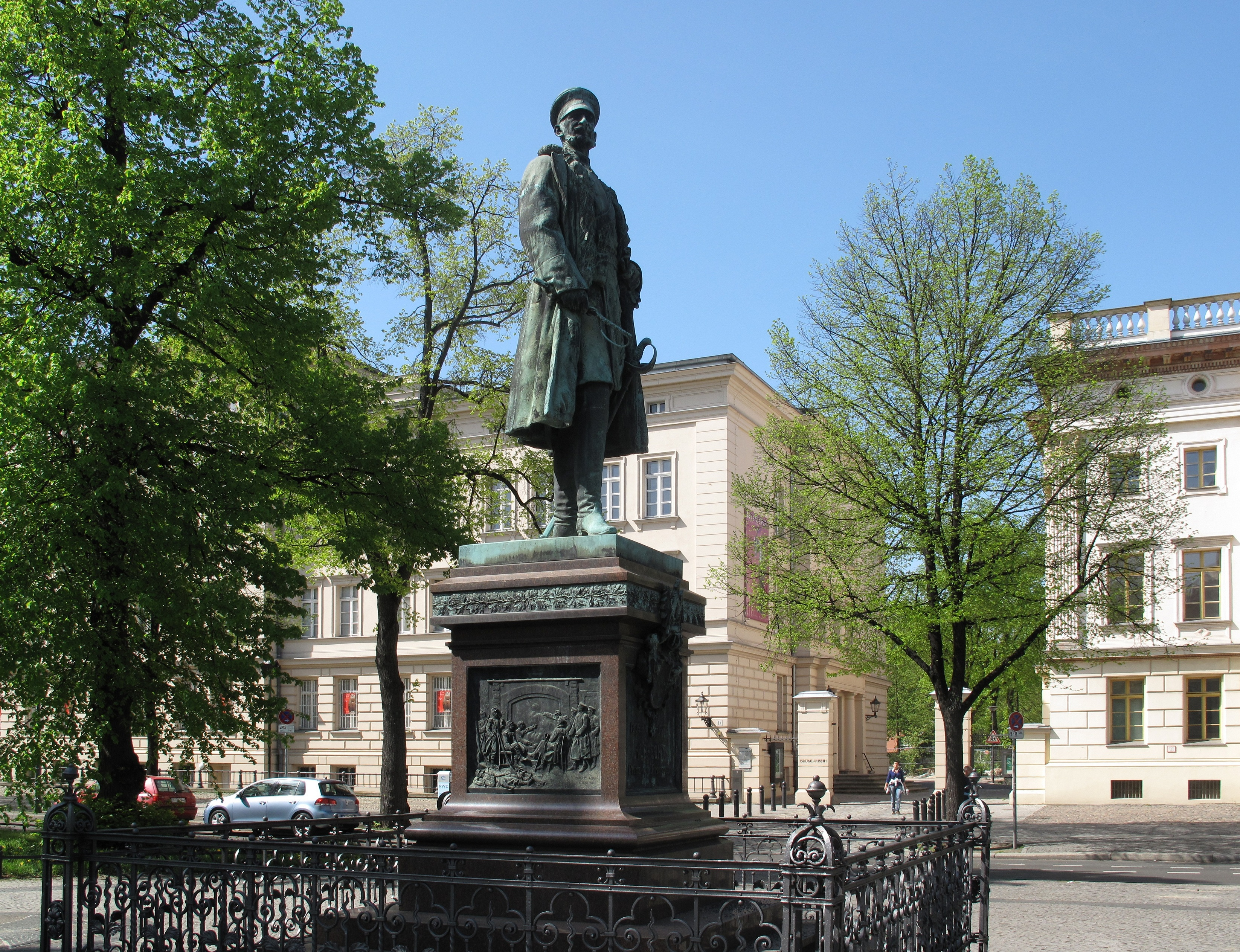 The Prinz-Albrecht-von-Preußen-Denkmal is a monument commemorating to Prince Albert of Prussia (1809–1872). The monument shows Prince Albert in 1870 as General of the Cavalry in the Franco-Prussian War. The pedestal-reliefs depict scenes from the Battle of Sedan and the Battle of Loigny-Poupry.The monument was created in 1901 by the german sculptors Eugen Boermel and Conrad Freyberg. It is located at the northern end of the Schloßstraße on the corner to the Spandauer Damm in Berlin-Charlottenburg. In the background left the Bröhan Museum and right the Berggruen Museum.